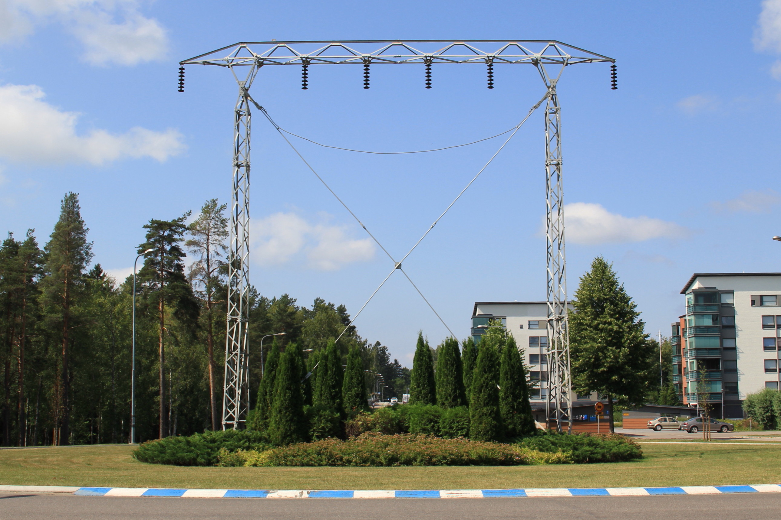 Preserved "Rautarouva" 110 kV power line pylon, Imatra, Finland. - Rautarouva power line was built in the 1920s. This pylon was preserved and moved to its present location in 2002.